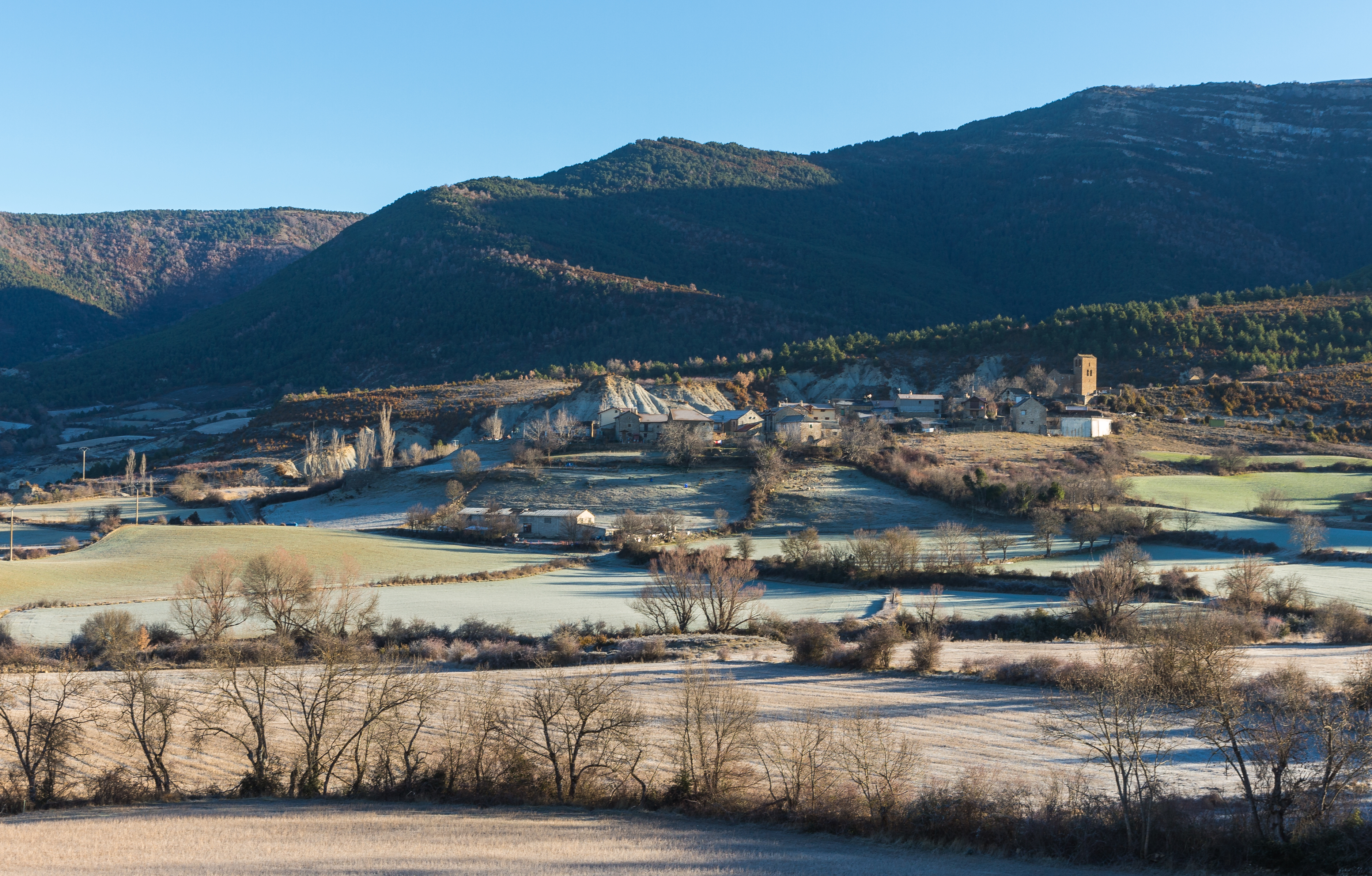 Javierre del Obispo, Huesca, Spain